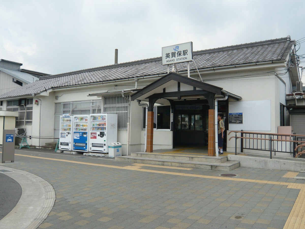 Agaho Station on the Sanyo Main Line